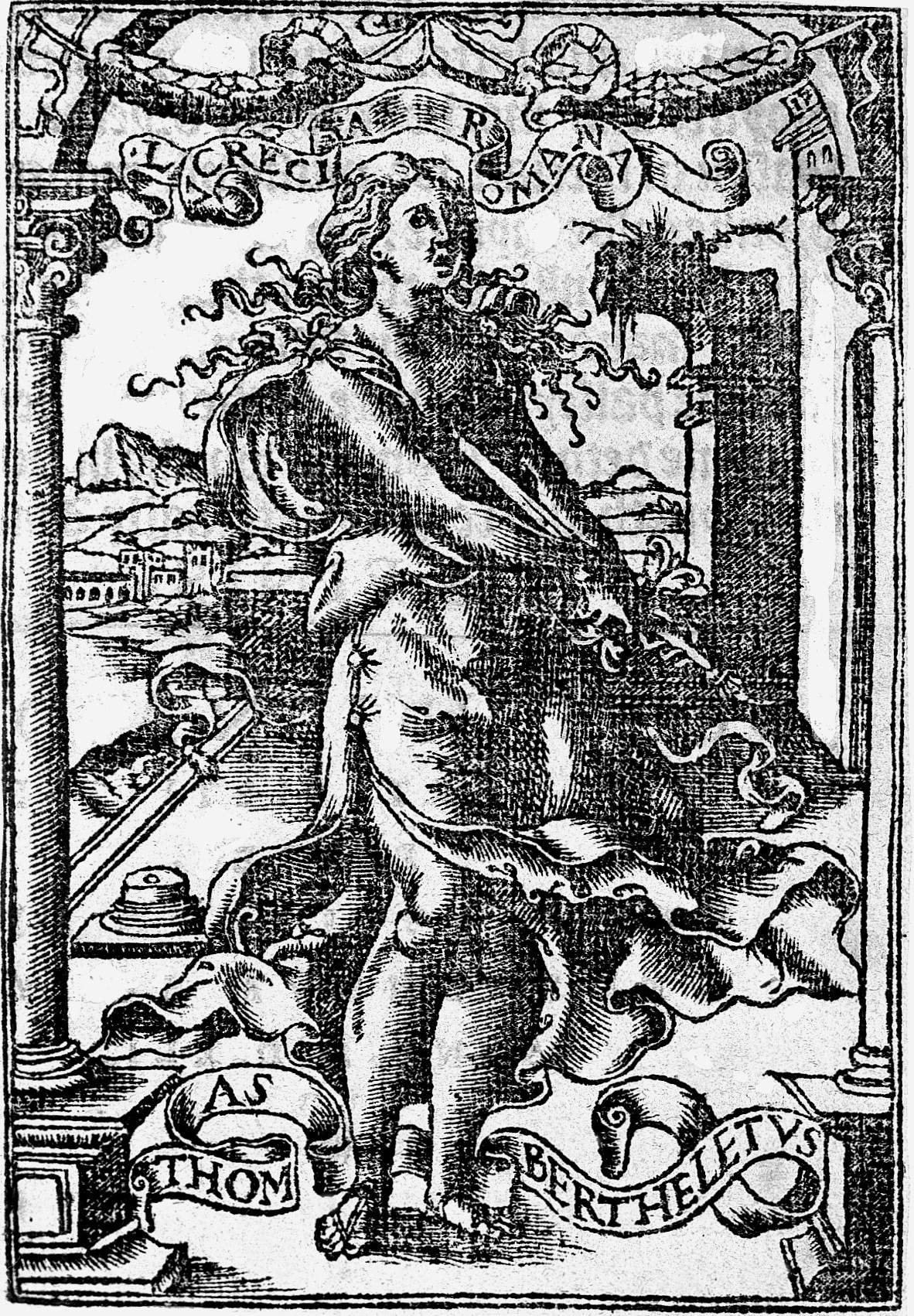 Thomas Berthelet's (Printer) bookplate Rare Books Keywords: Thomas Berthelet